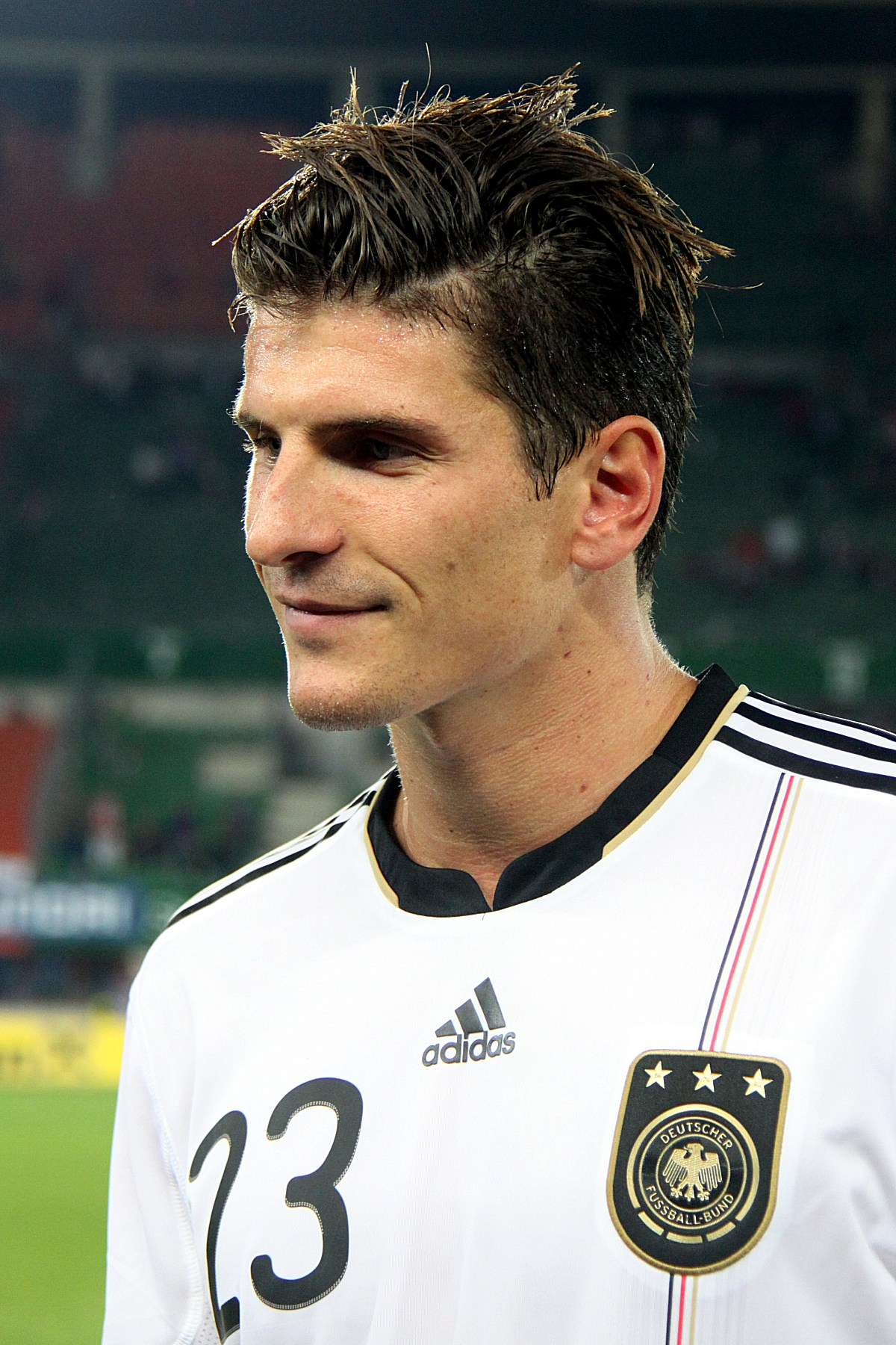 Mario Gómez (FC Bayern Munich), german national football team